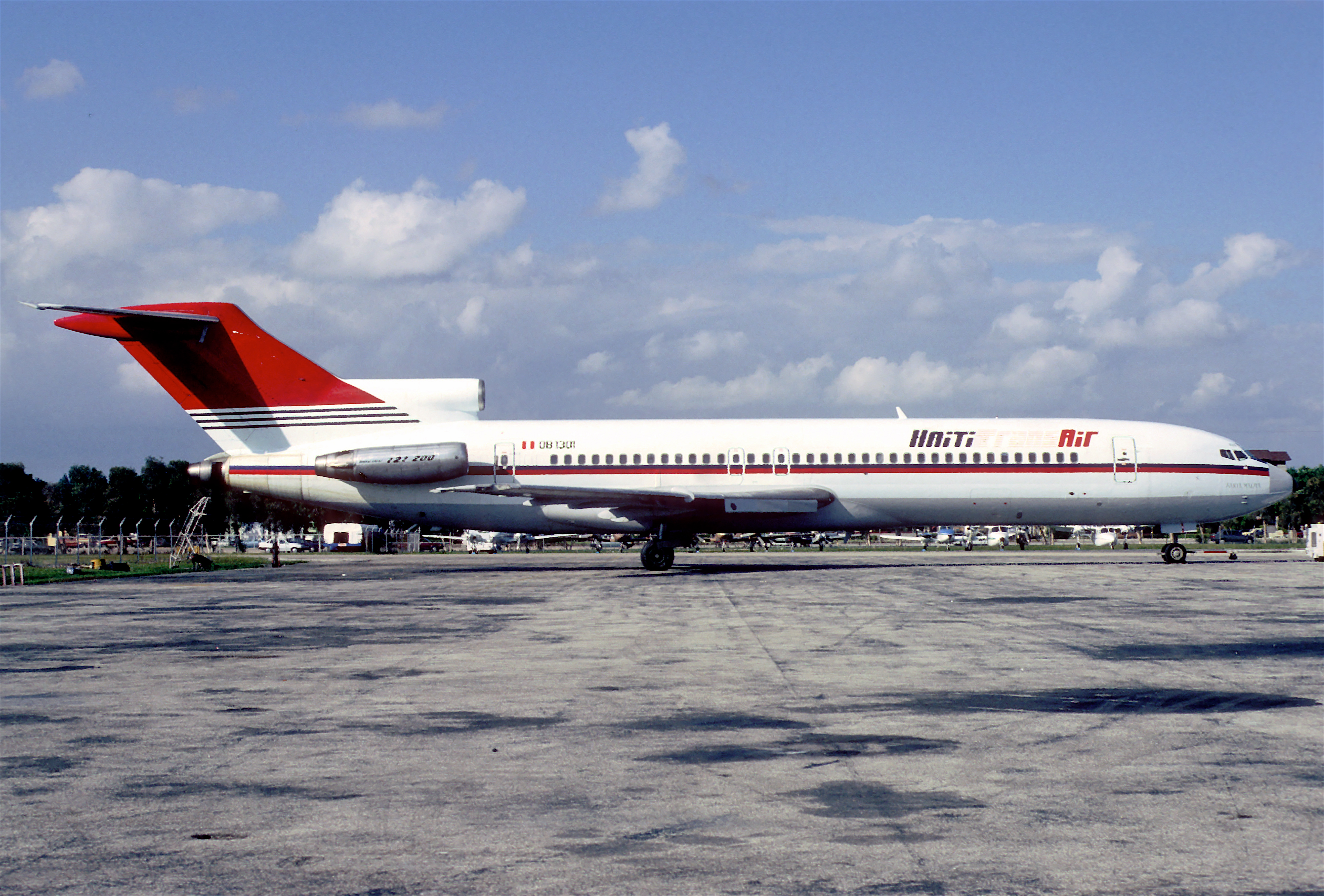 Haiti Trans Air Boeing 727-247; OB-1301, November 1990